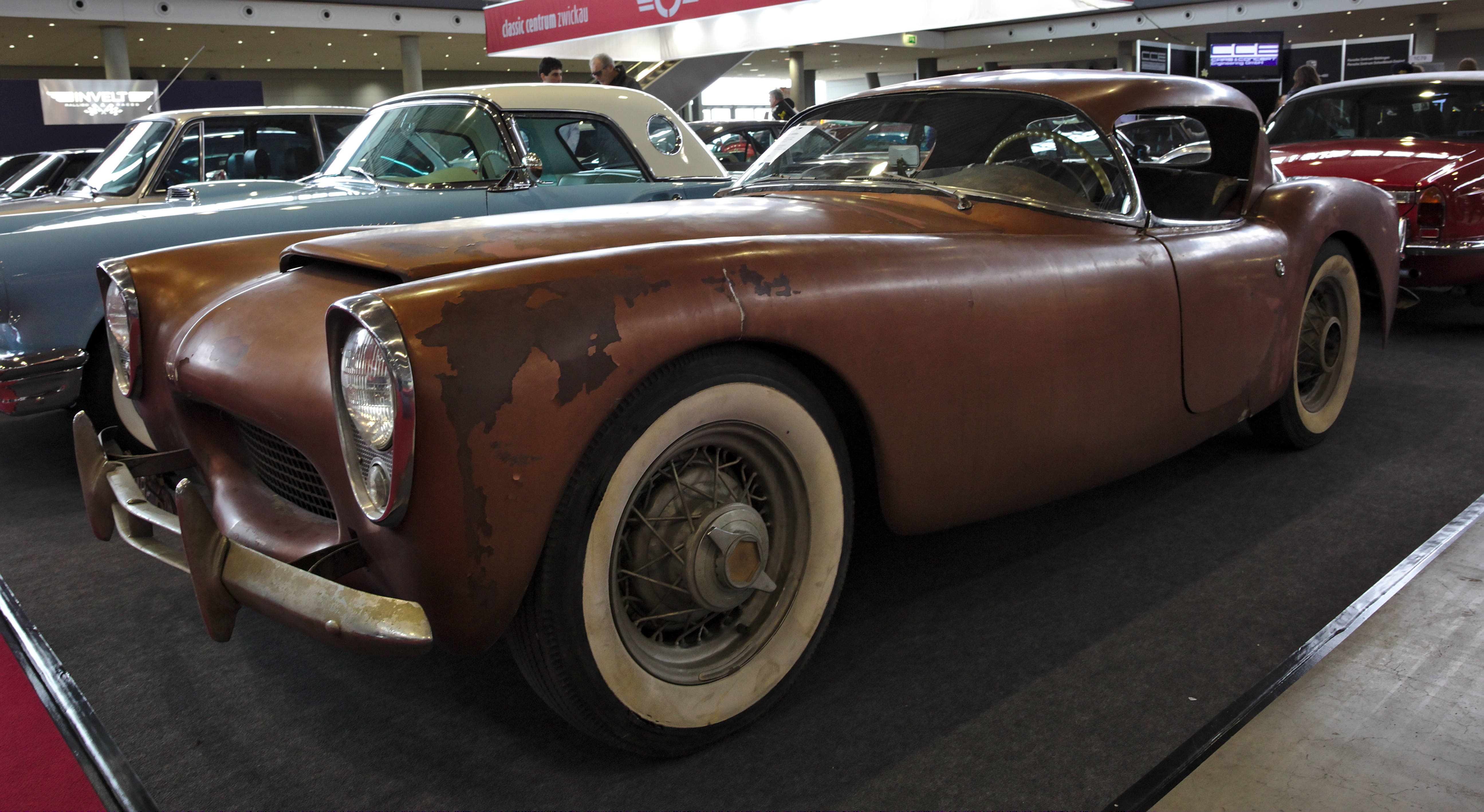 Woodill Wildfire at Retro Classics 2018